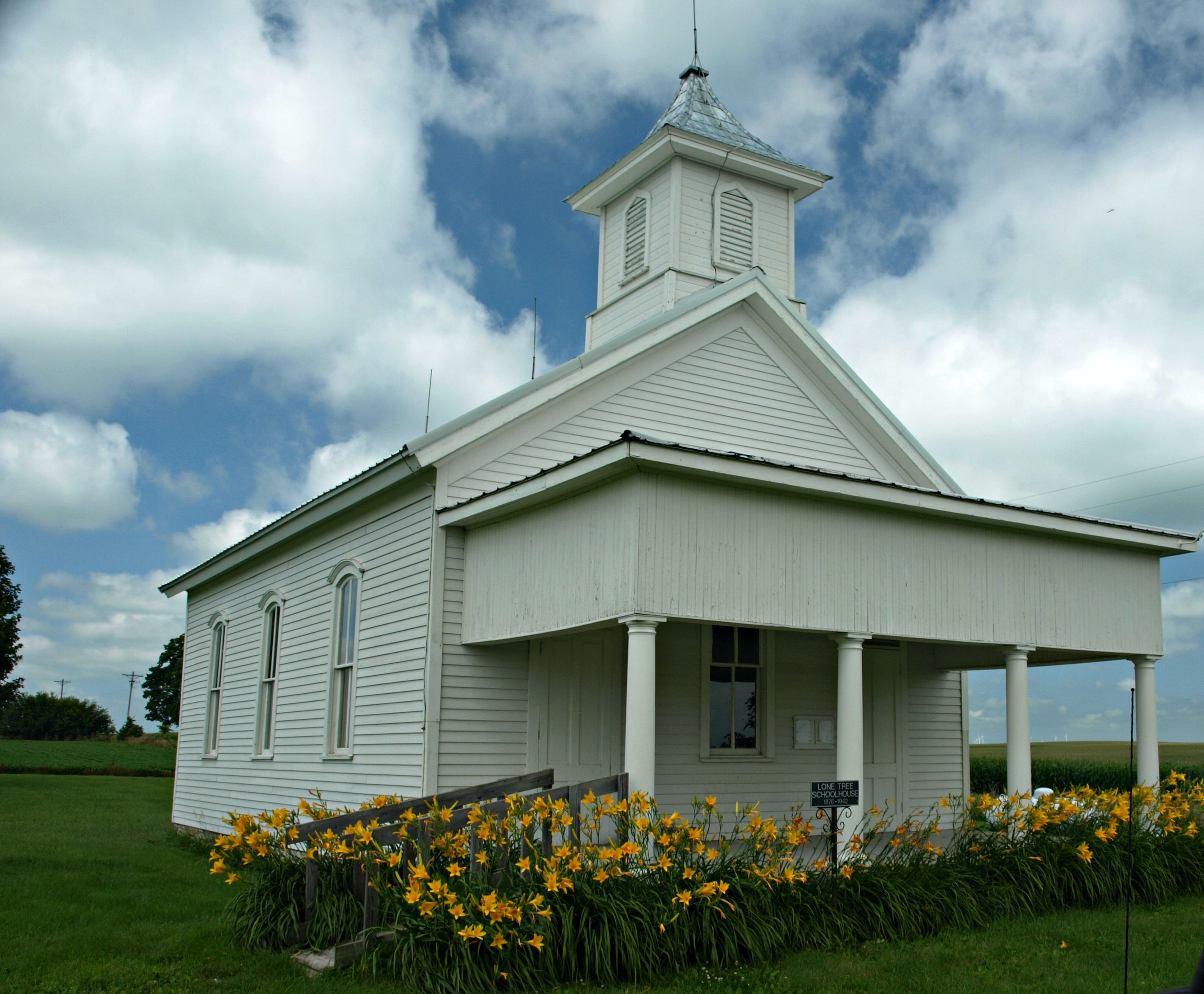 This is a one room country school located in rural Illinois that serviced the children of the farms and hamlets in the area from 1876-1942.